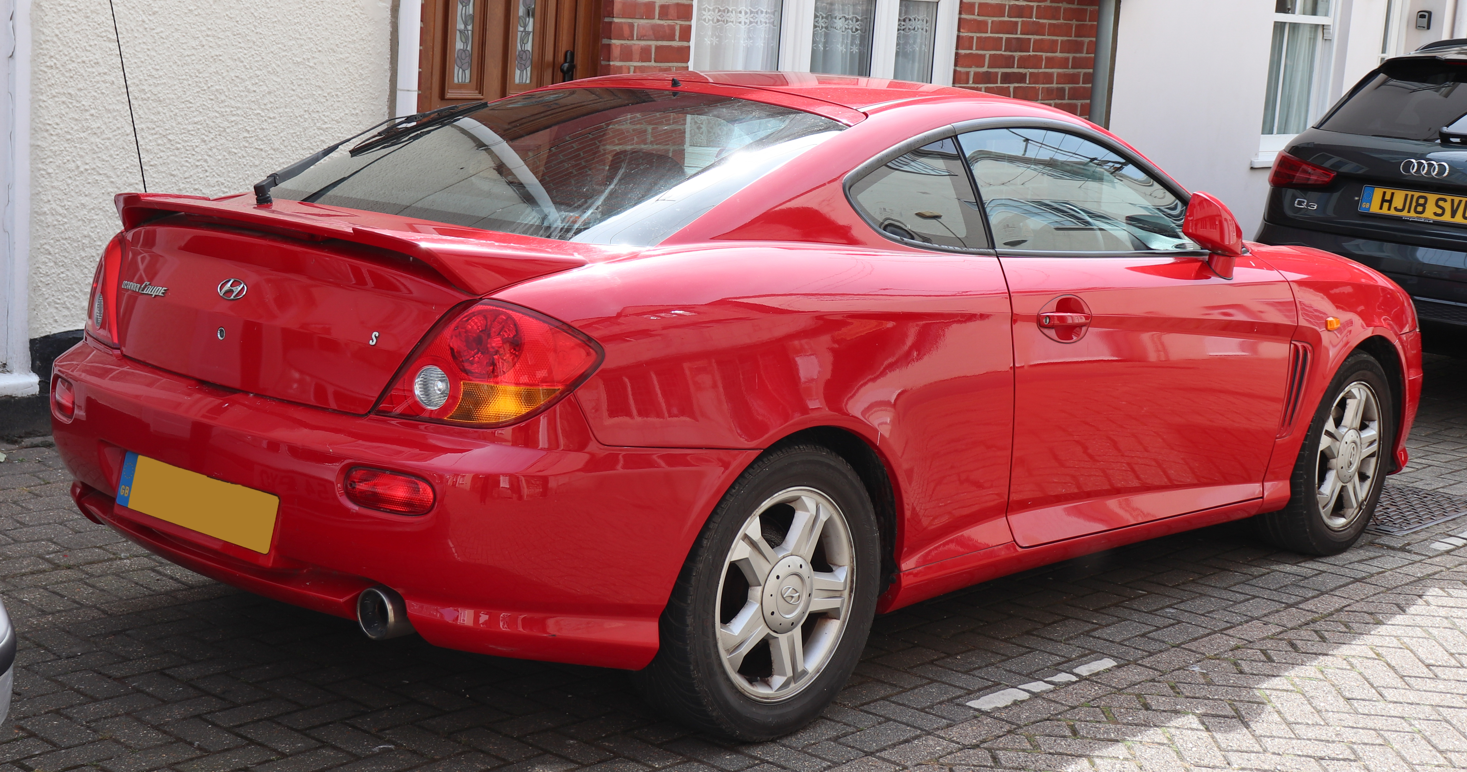 2004 Hyundai Coupe S 1.6 Rear Taken in Weymouth, Dorset